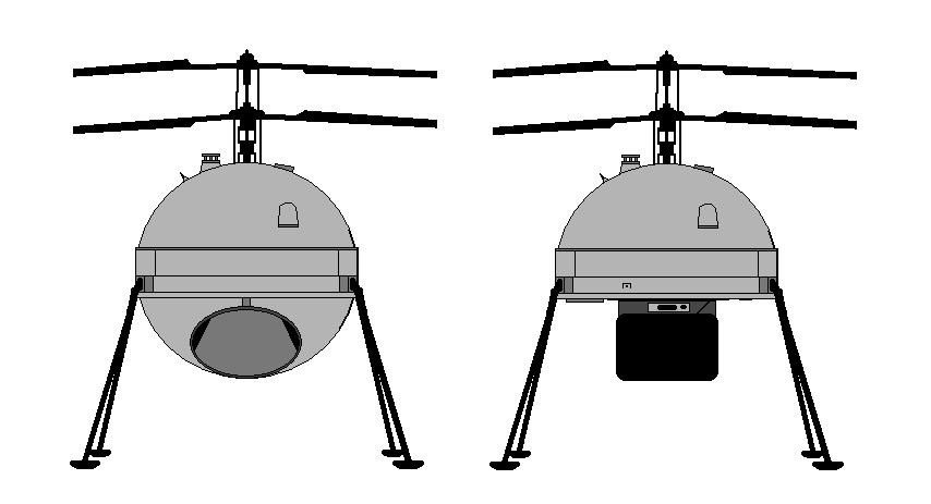 Kamov Ka-137 helicopter